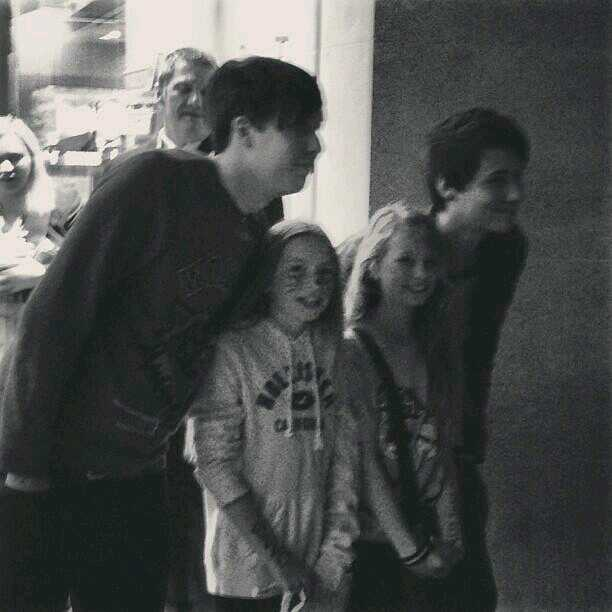 Dan Howell (a.k.a Danisnotonfire) and Phil Lester (a.k.a. AmazingPhil) meeting two young fans.